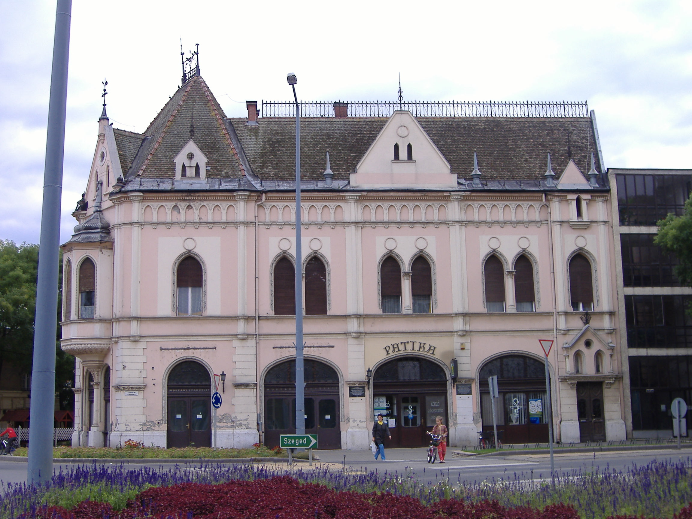 The building of the Savings Bank in Makó, Hungary.